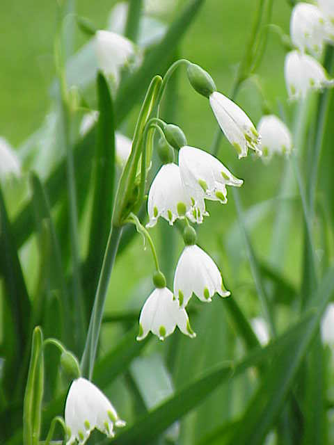 Species: Leucojum aestivum Family: Amaryllidaceae Image No. 4